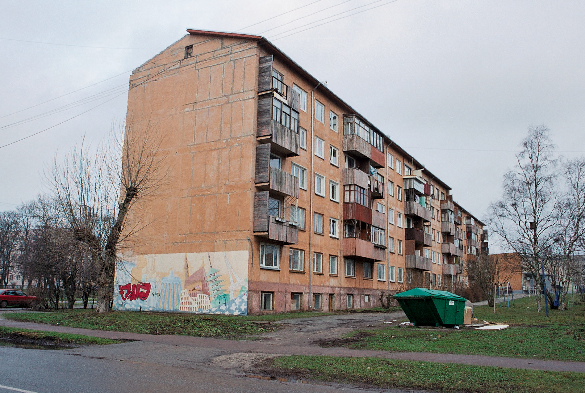 Graffiti in Paldiski